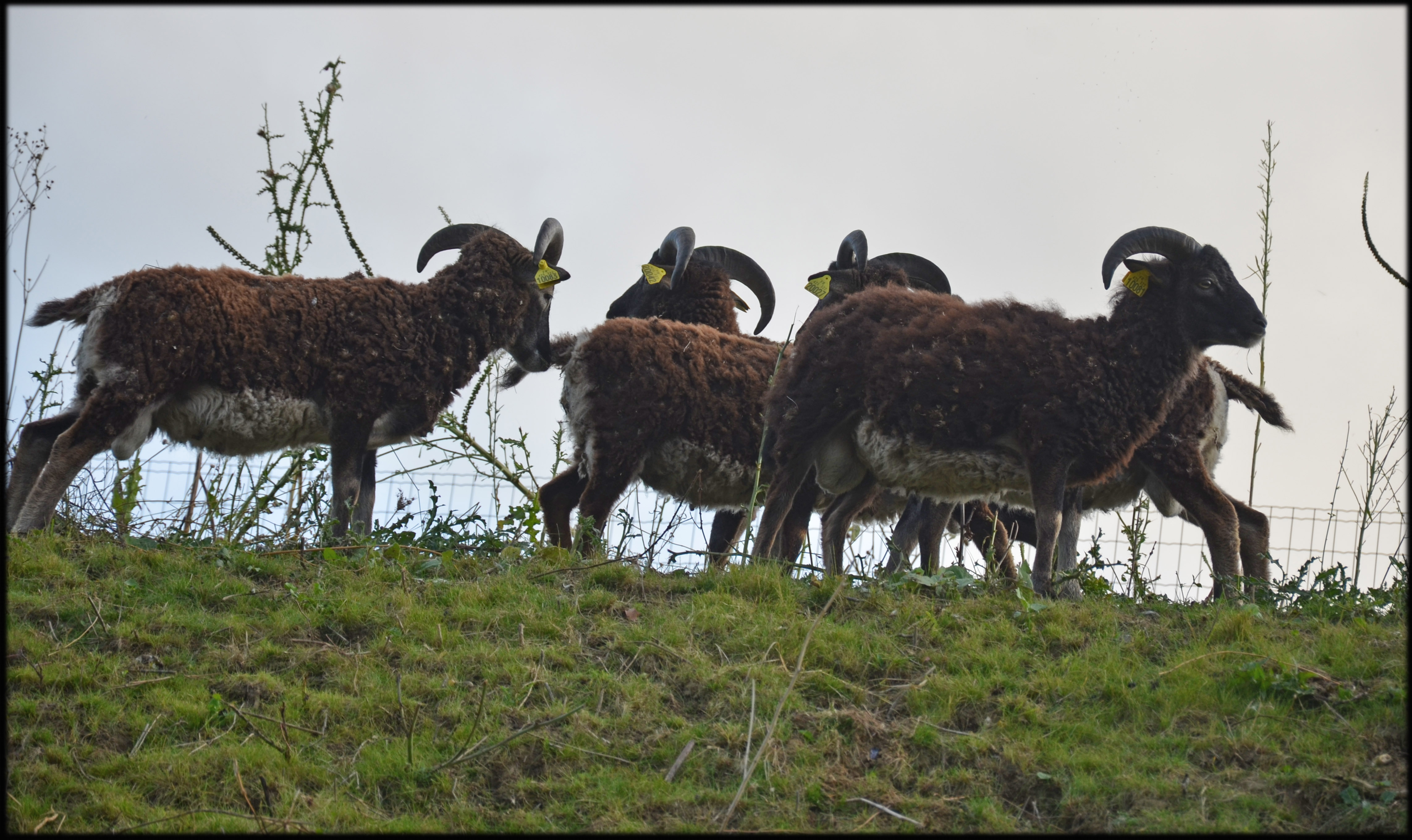 Soay Sheep used by the city of Lille for Management of vegetation covering the top part of the fortifications ( Lille citadel, built by Vauban). This little sheep, light and rustic, ideally replaces the mechanical equipment. It also plays a role "ambulant ecological corridor " carrying seeds and propagules in his coat, his digestive tract and under his hooves.